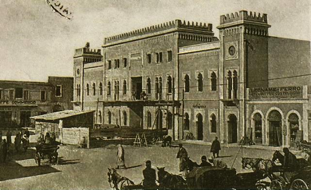 The former Benghazi Municipality Hall just after World War I. The building is the creation of several architects and designers. The portico of the facade and the interiors were designed by Marcello Piacentini, while the facades were designed by the architect Ivo Lebboroni. The interior frescoes are the work of Guido Cadorin, while the chandeliers are by U. Bellotto. The furniture inside the town hall was designed by the company Ducrot.